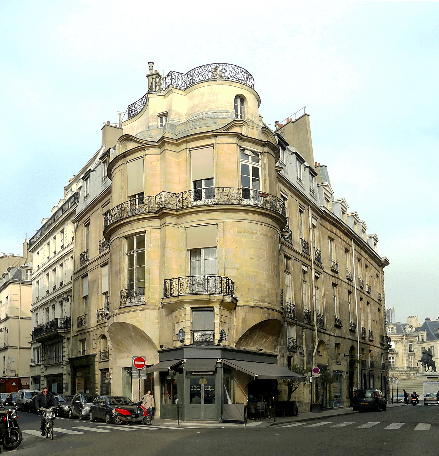 Portalis hotel - Paris